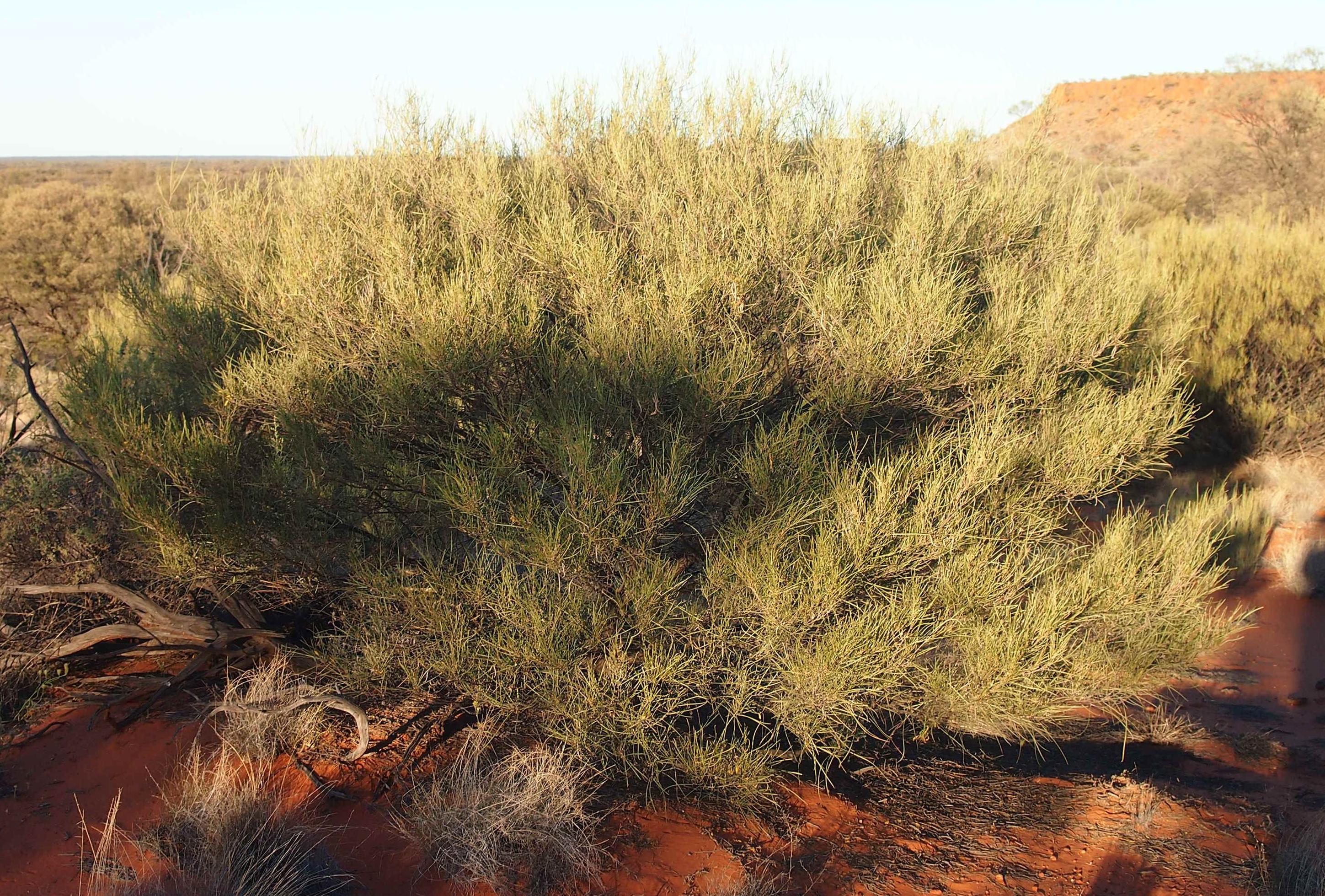 Acacia ramulosa habit